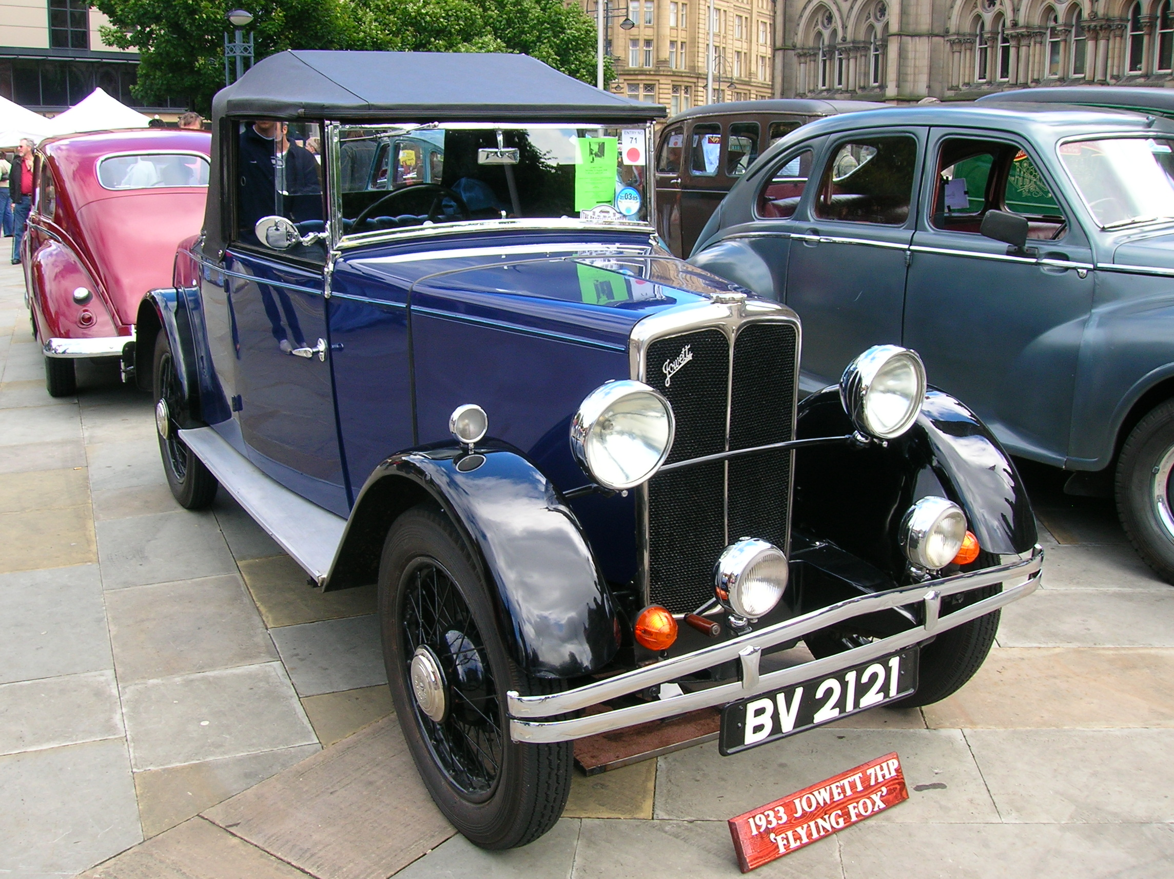 Bradford Classic Car Show 2008